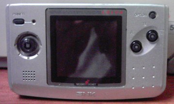 Neo geo pocket colorReplaces image of unknown origin (but which seems familiar,and I suspect is in fact from advertising material) with a free image. A standard silver-case NGPC, this particular one is showing a little wear and tear. :-( My SPARCstation 5 is in the background.